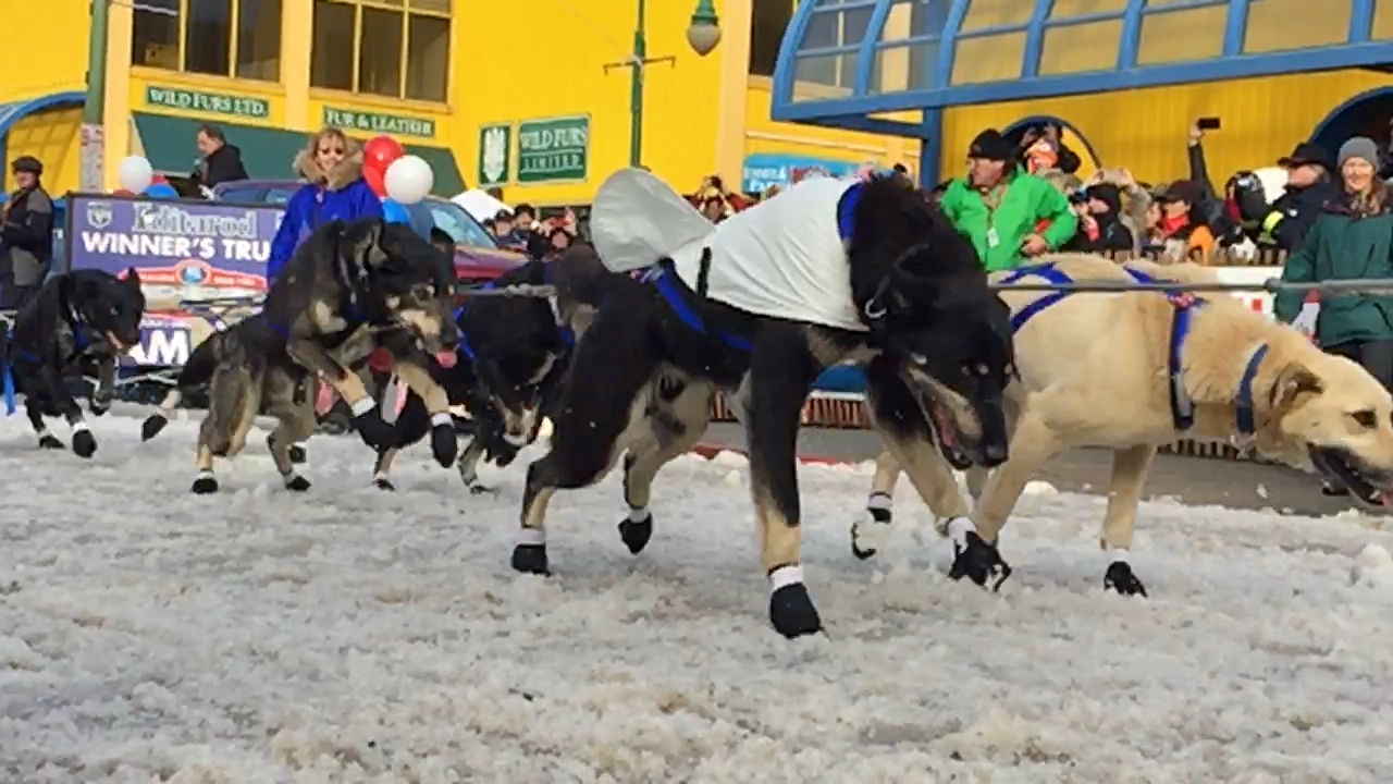 Martin Buser's team of Alaskan Huskies during the 2015 Iditarod Ceremonial Start in downtown Anchorage, Alaska.